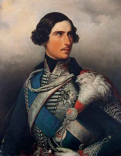 Frederick William of Hesse-Kassel (1820-1884)